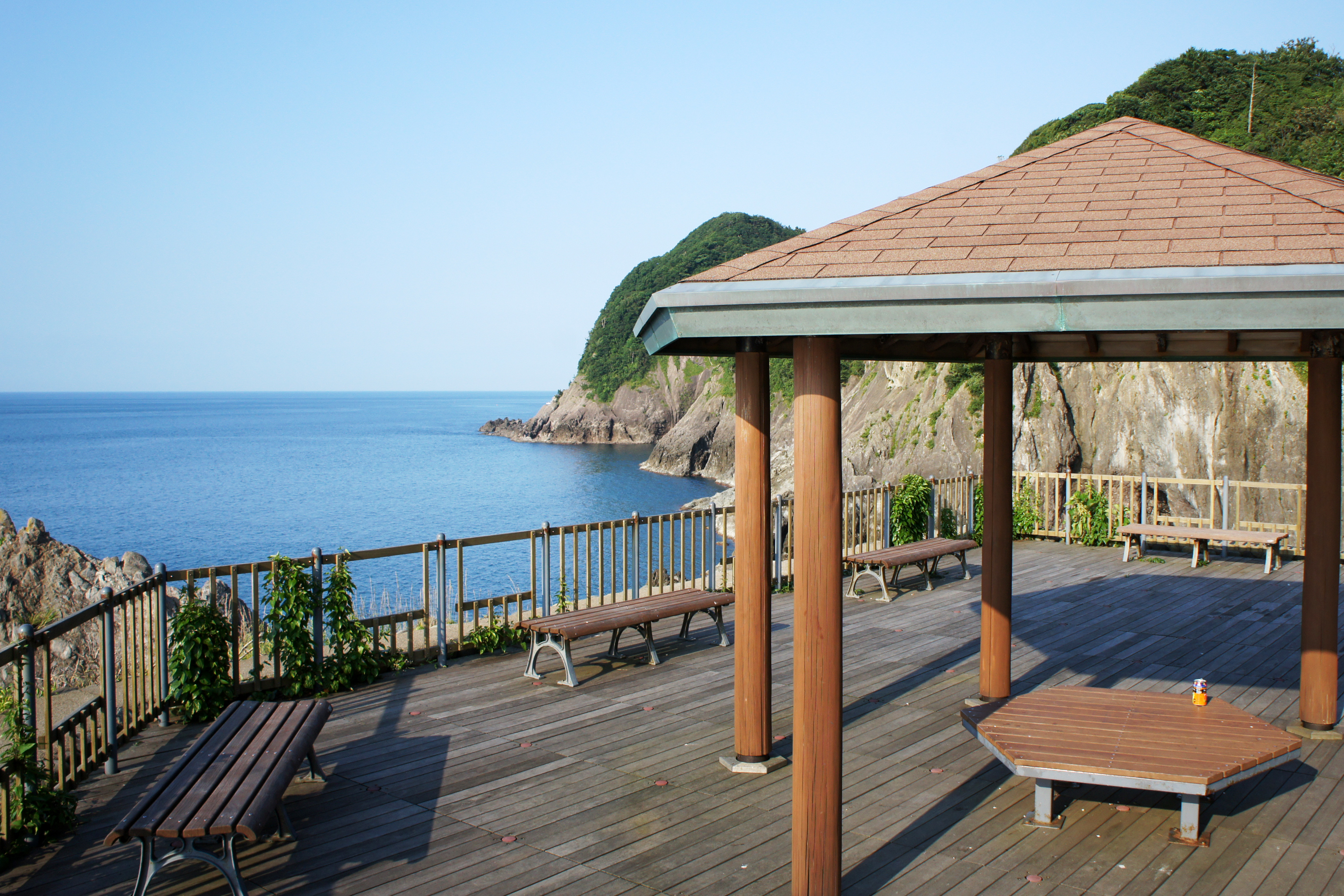 at Obiki-no-hana of Kasumi Coast in Kami, Hyogo prefecture, Japan.